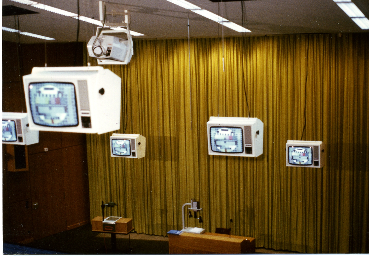 Video Loop (Wolf Audio Visuals) AV installation c.1975 - a prototype document camera